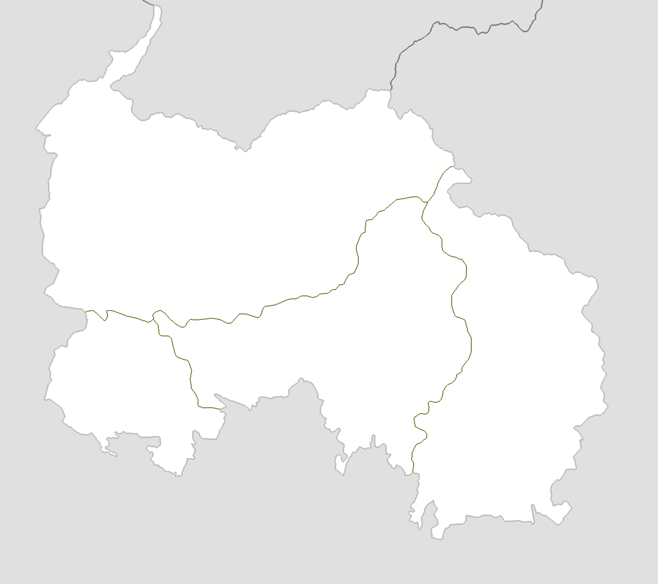 Republic South Ossetia Locator Map